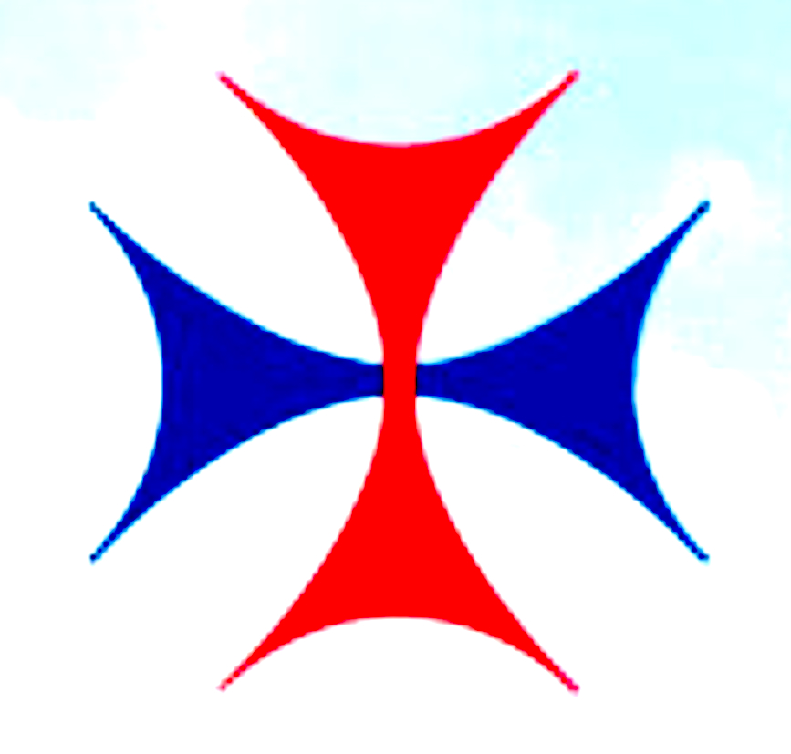 Trinitarian Order Cross (before the 16th century)